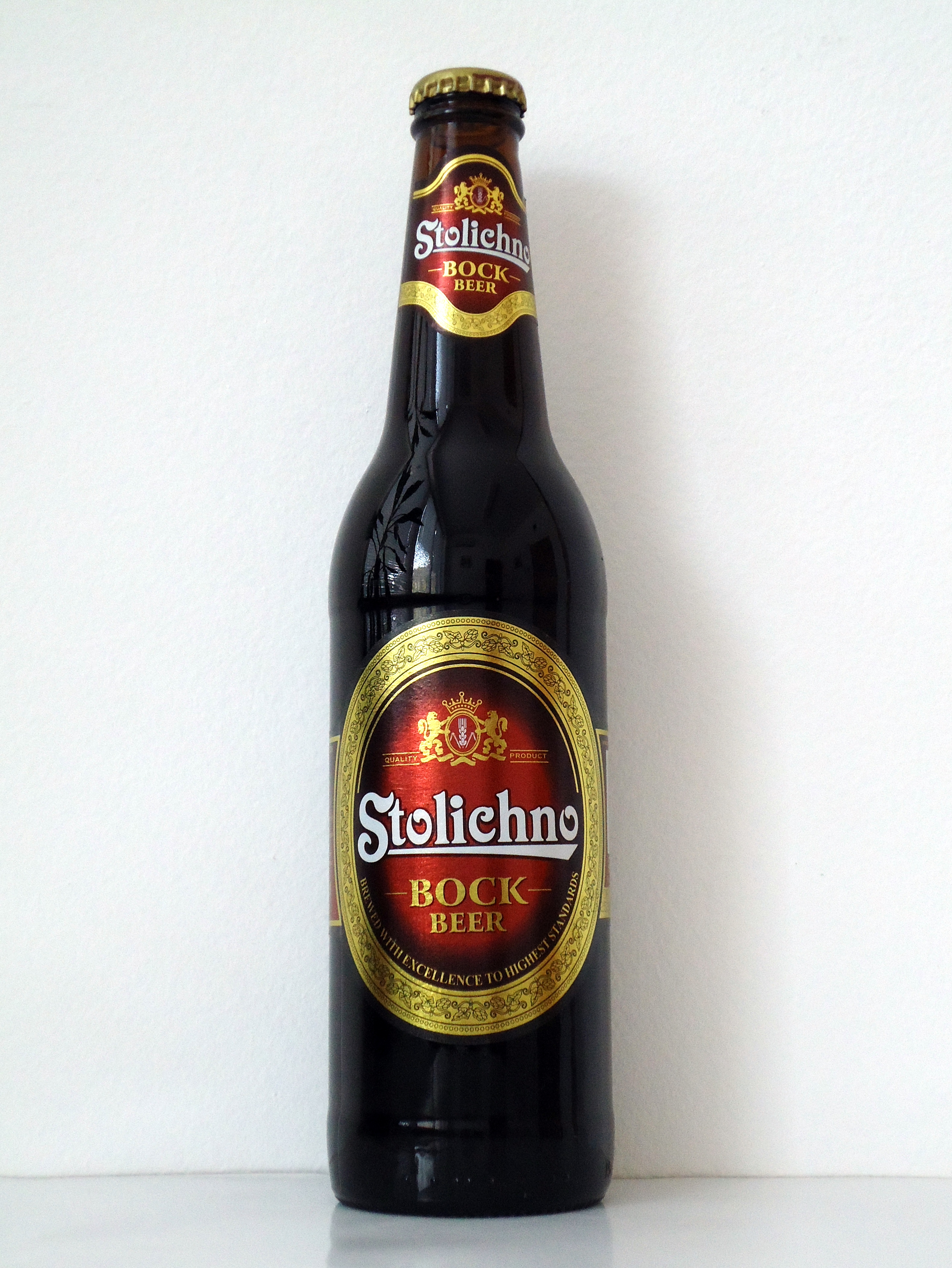 Stolichno Bock Beer (BULGARIA)